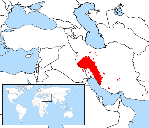 Sorani Kurdih and Southern Kurdish and Arabic inhabited areas cleared from Lurish areas.